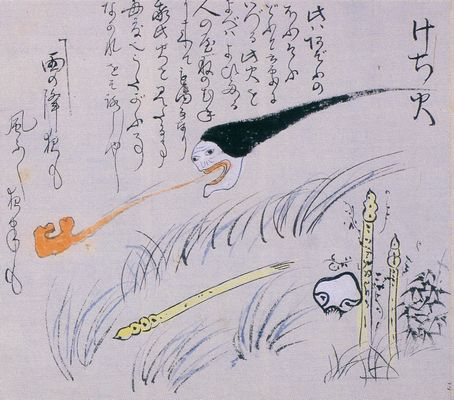 Kechibi (けち火, a will-o'-the-wisp from Kōchi Prefecture) from the Tosa Obake Zōshi (土佐お化け草紙)